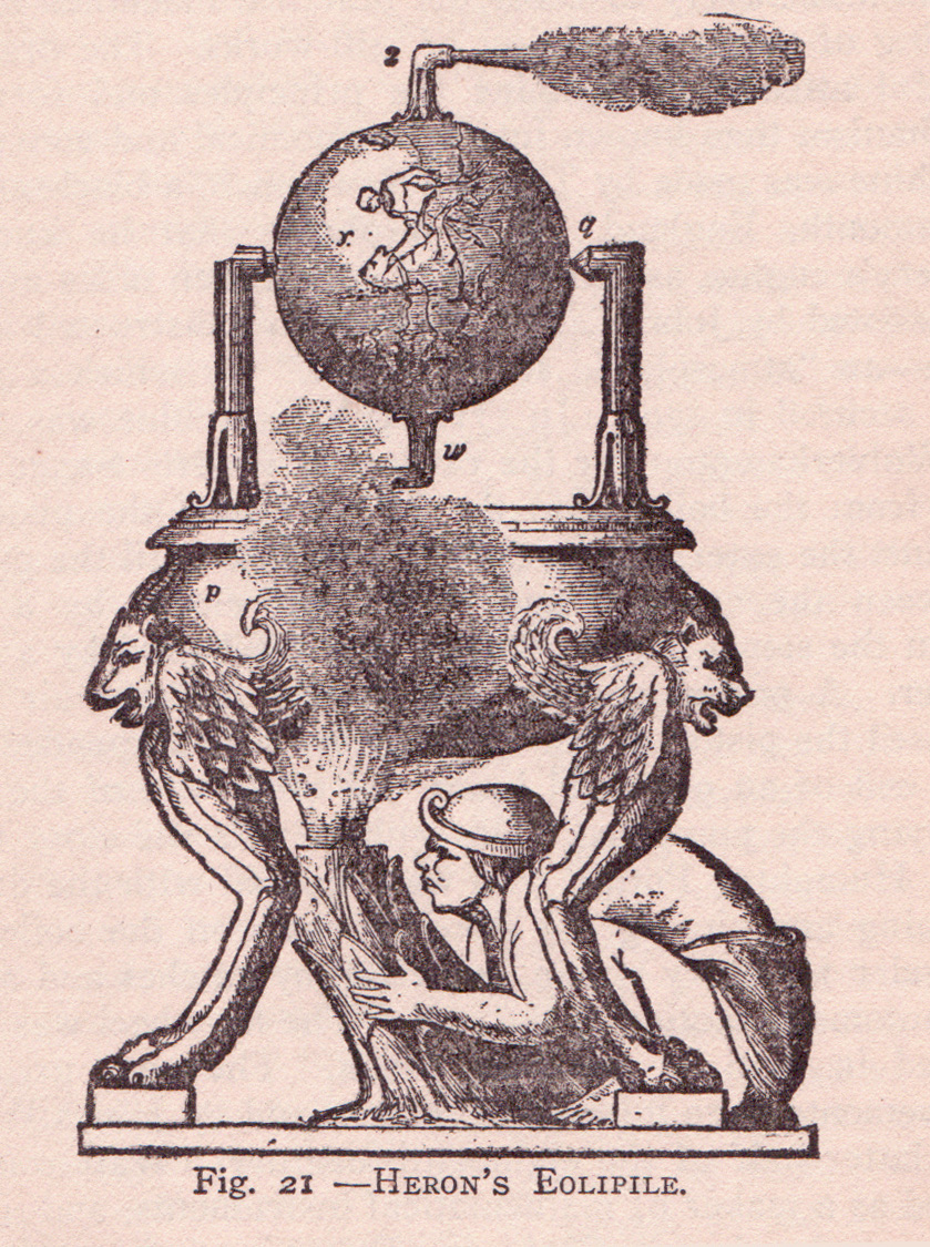 From the book, "The Science-History of the Universe" by Francis Rolt-Wheeler, Copyright 1910, The Current Literature Publishing Company, New York. The illustration is from page 309. This may be the beginnings of the steam engine. Flickr data on 2011-08-16: Tags: vintage, book, image, illustration, drawing, public domain, copyright free, pre-1923 License: CC BY 2.0 User: perpetualplum Sue Clark